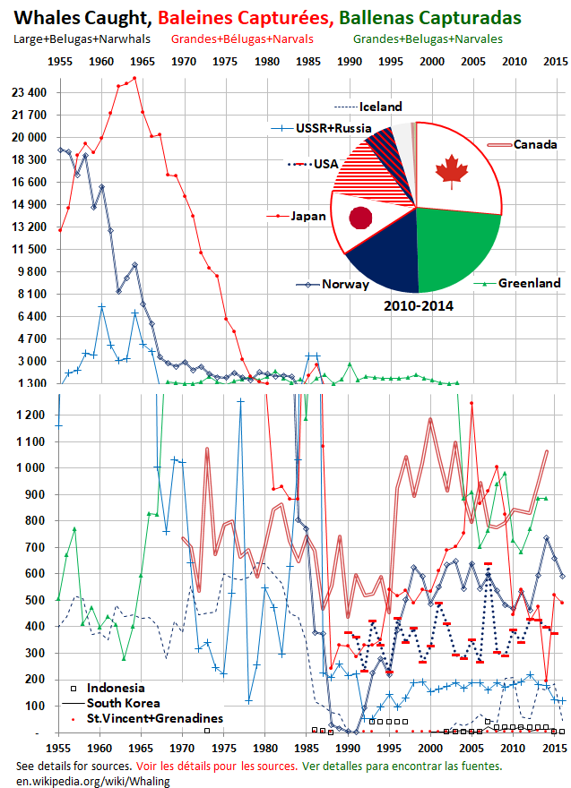 Whales caught, by year, 1955-2016. Les baleines capturées, par an. Ballenas capturadas, por año. IWC 1986-2016 IWC 1945-2016 Indonesia: 1993-2007, 2008-2015 Narwhals Belugas: Canada: Beaufort Sea: 1960-1984, 1970-99, 2000-2012, 2013-15, 2014 Canada: Nunavut: Arviat, Canada: Nunavik: 1996-2002, 2003-16 Russia: 1954-1985 citations to Russian sources, NMFS-citation to Russian paper, Western Russia Greenland: 1954-2016, M.P. Heide-Jorgensen et E. Garde, 2017-03-01 "Catch statistics for belugas in Greenland 1862 to 2016", NAMMCO/JCNB Joint Working Group on narwhals and belugas, Copenhagen Alaska: 1954-1984 with earlier citations, 1987-90 Cook Inlet, 1990-2011, 2012-2015 +Cook Inlet, 2012-2015